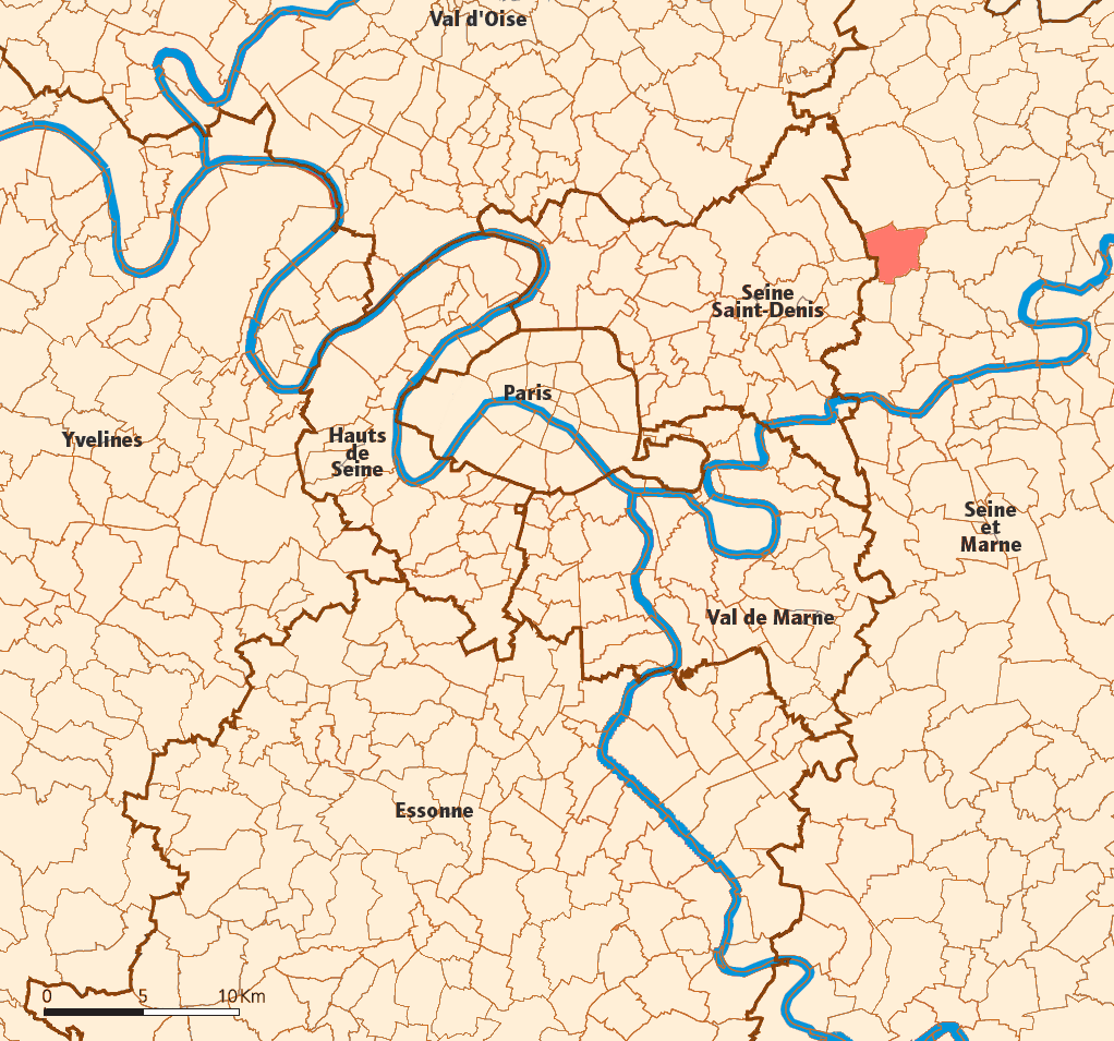 Created map myself.